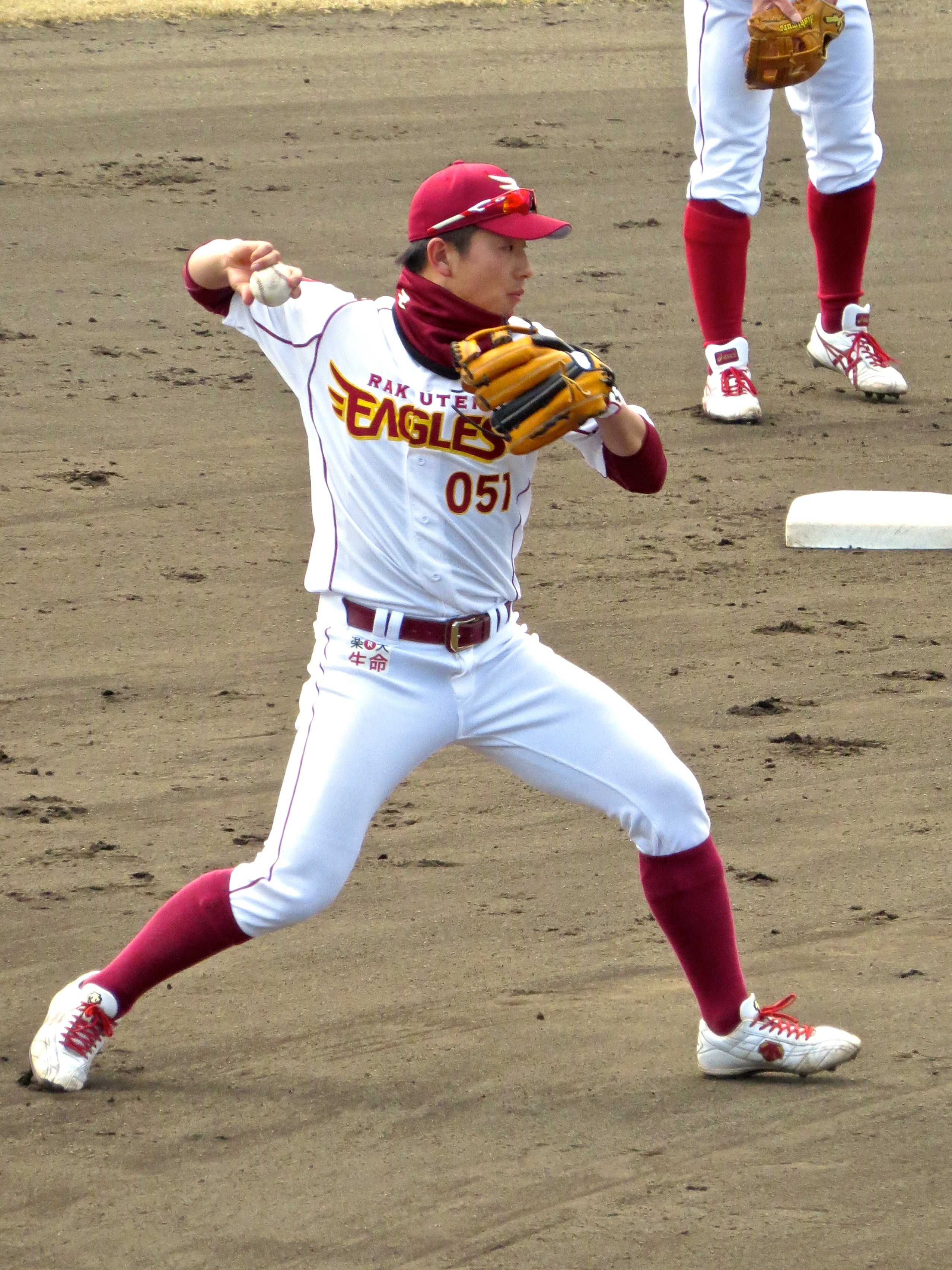 Takahiro Kakizawa, outfielder of the Tohoku Rakuten Golden Eagles, at Saitama Municipal Urawa Baseball Stadium.